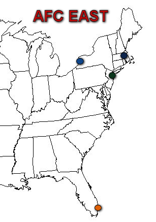 To distinguish the locations of the w: NFL teams in the AFC East